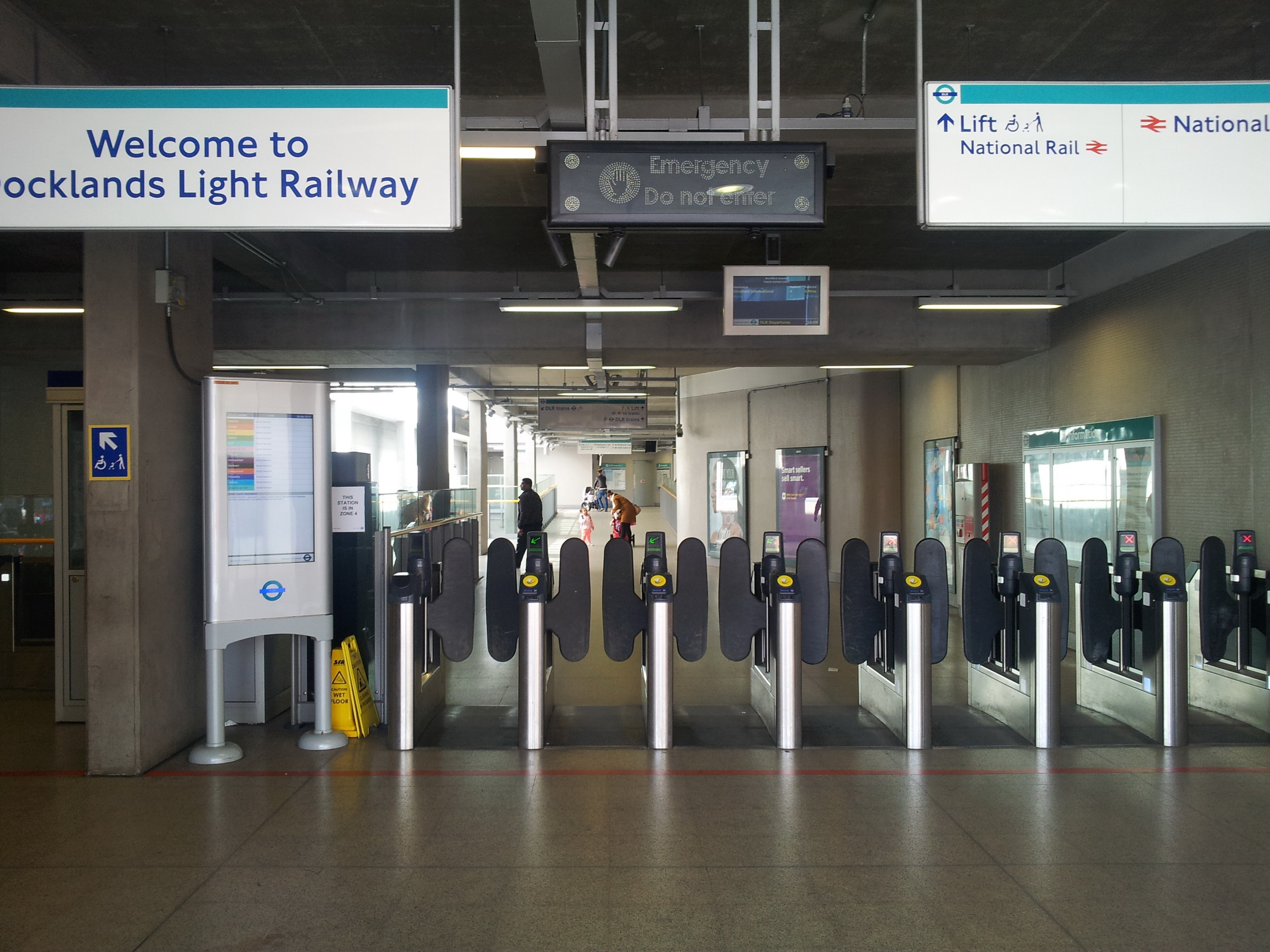 View of the Woolwich Arsenal DLR Station in Woolwich New Street in the centre of Woolwich, South East London.